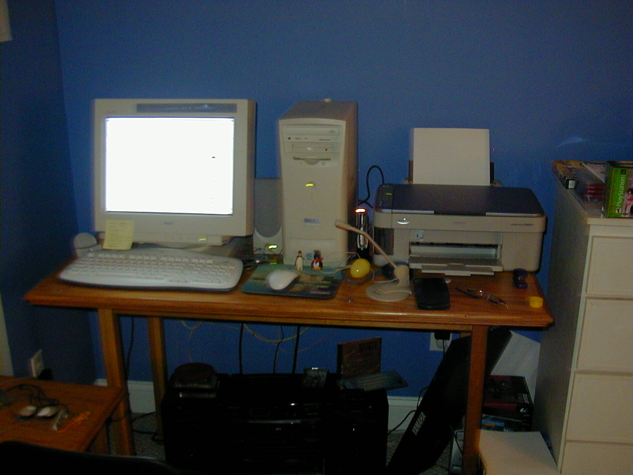 Picture of my Dell desktop machine. Present on the desk are: Speakers (a pair of headphones is also visible if you look closely) CLIE HotSync cradle Large 17" monitor Wireless keyboard and mouse A couple little penguin figurines. A USB card reader Epson Stylus CX4600 all-in-one The wireless receiver for the keyboard and mouse My microphone ($10 for the thing - really great deal!) A TI-30Xa calculator